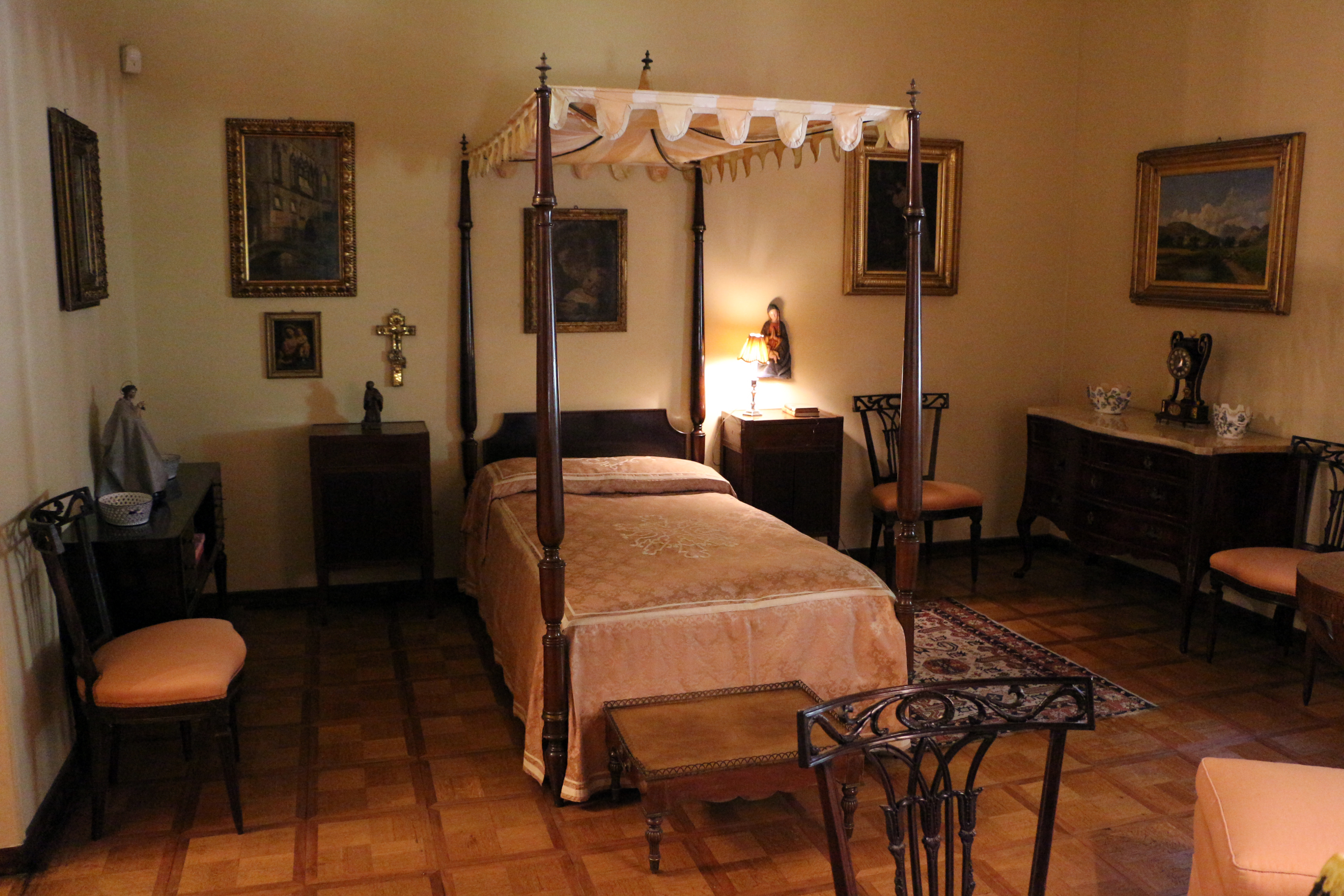 Villa Necchi Campiglio (Milan) - Interior